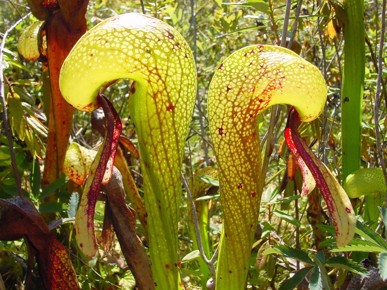 Description: Darlingtonia californica — California pitcher plant. Location: Near Florence, OR Picture taken by: NoahElhardt Date: 7/23/05